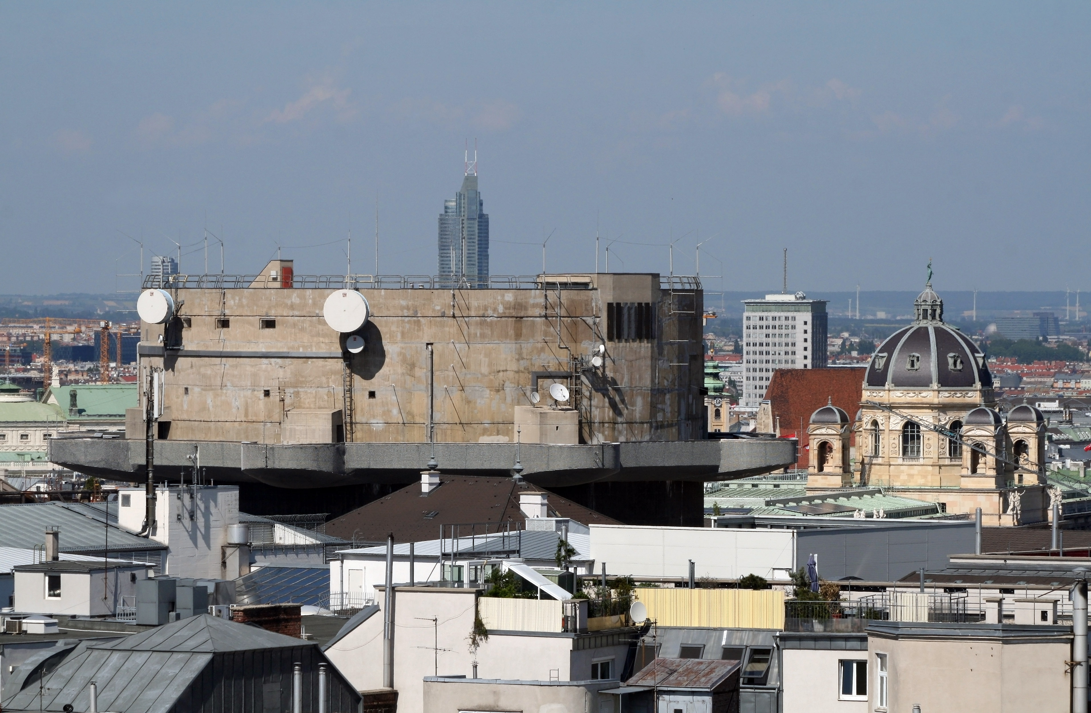 View from Haus des Meeres in Vienna to the flak tower at Stiftskaserne.